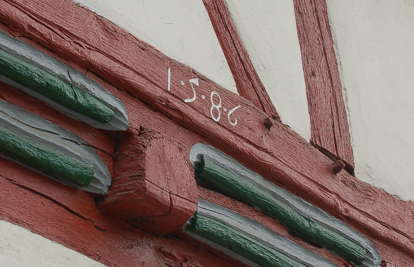 oldest frame house (1586) in Jestädt, Hesse, Germany